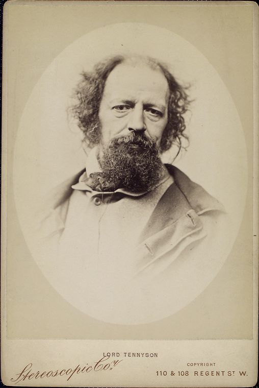 Alfred Tennyson, British poet